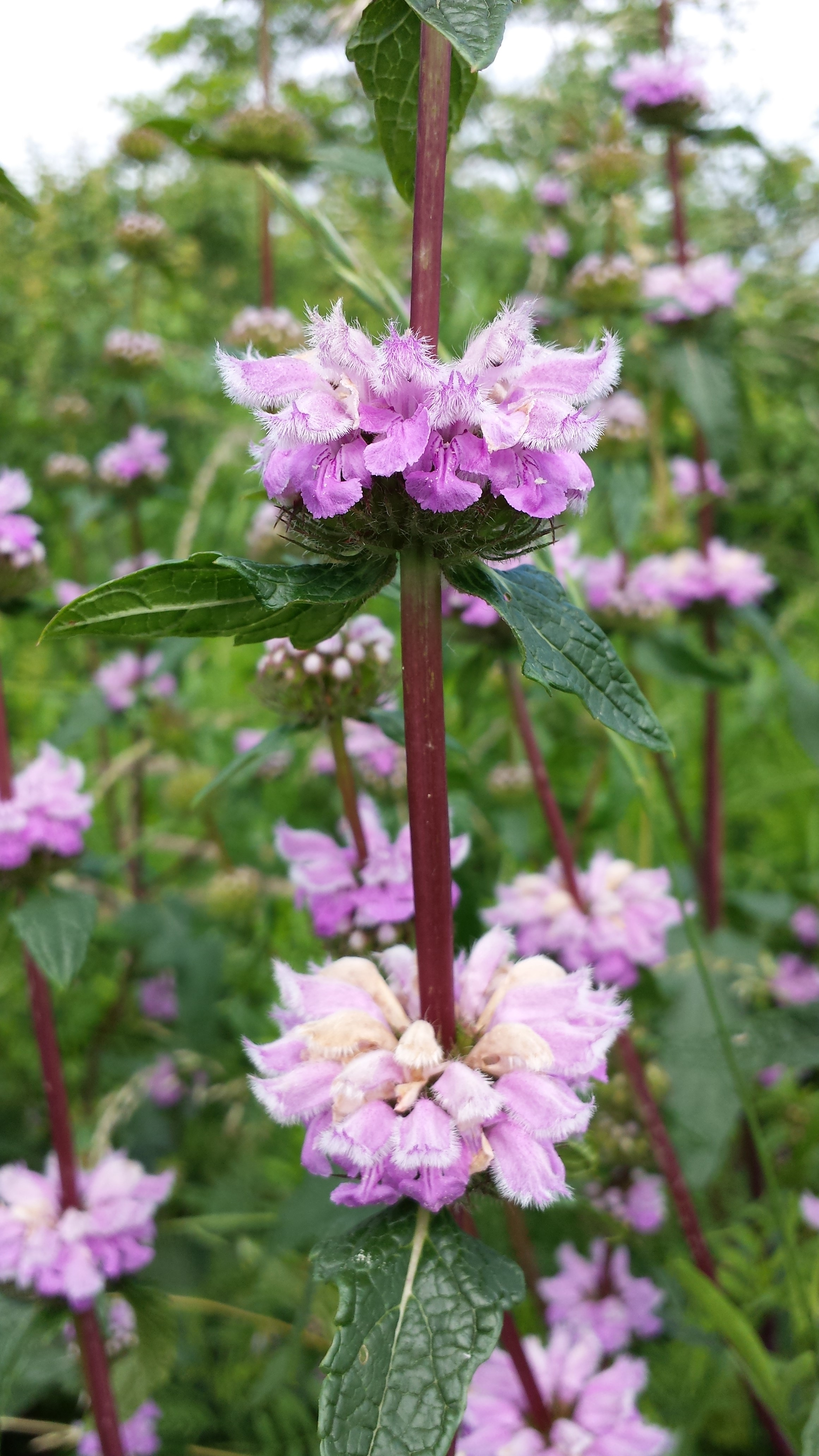 Inflorescences Taxon: Phlomis tuberosa (sensu Fischer et al. EfÖLS 2008) Location: Gallows hill near Oberstinkenbrunn, district Hollabrunn, Lower Austria - ca. 340 m a.s.l. Habitat: dry grassland